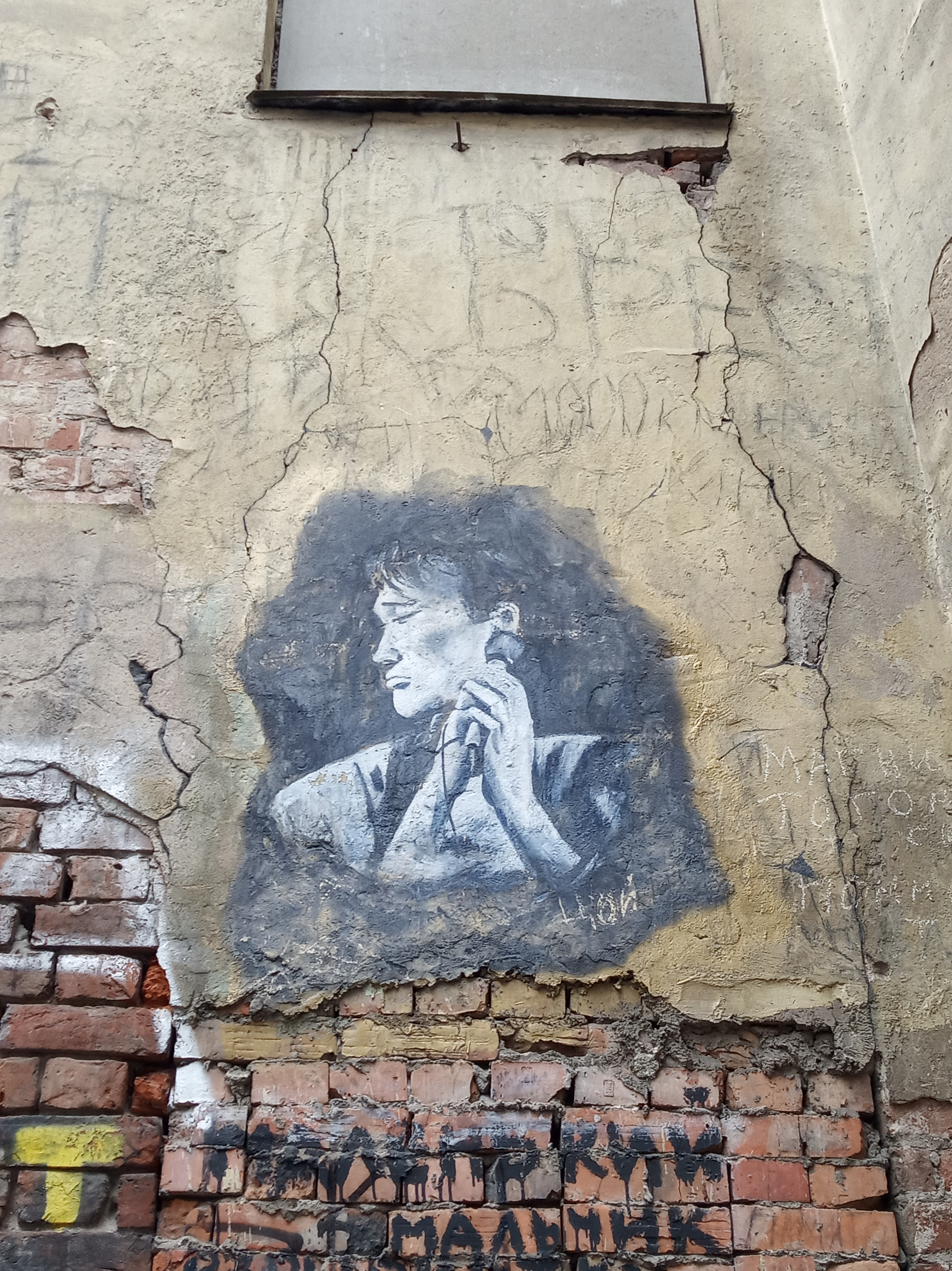 Blokhina Street, 15